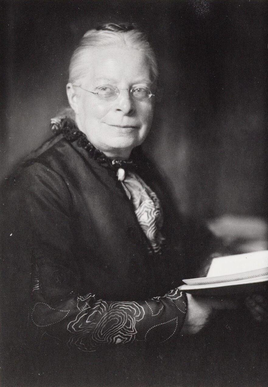 Photograph of Catharine van Tussenbroek by Jacob Merkelbach (1877-1942)